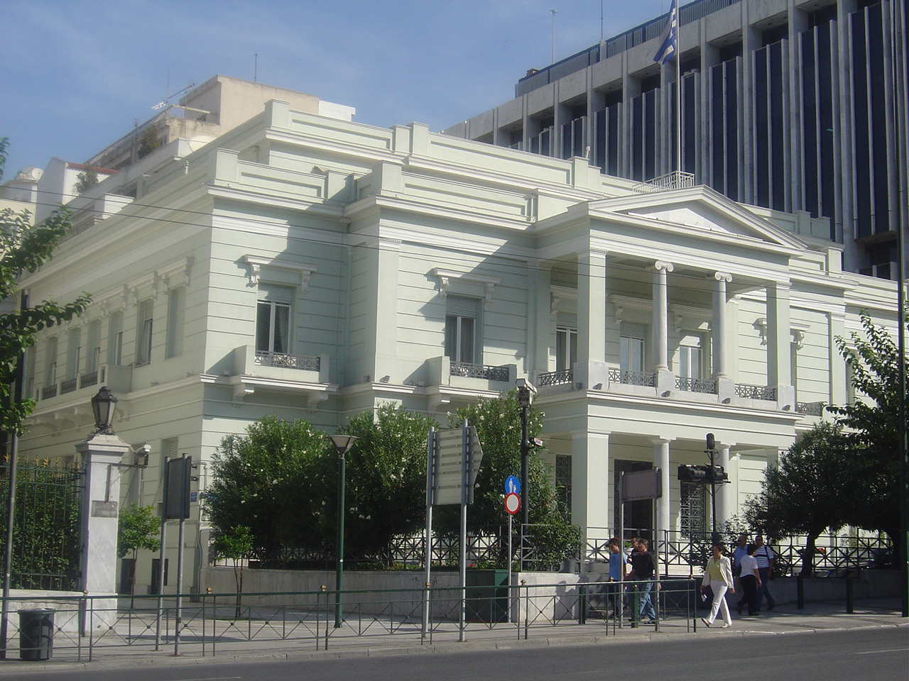 Syngros mansion in Athens